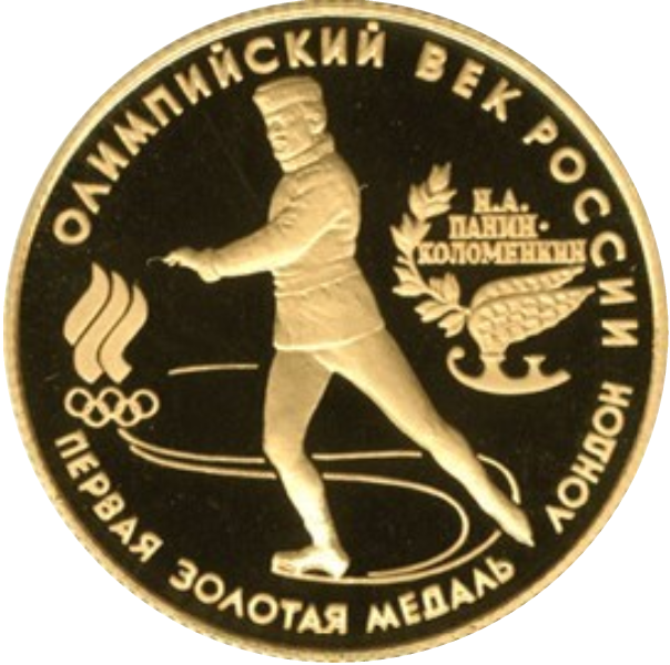 Commemorative coin - First gold medal